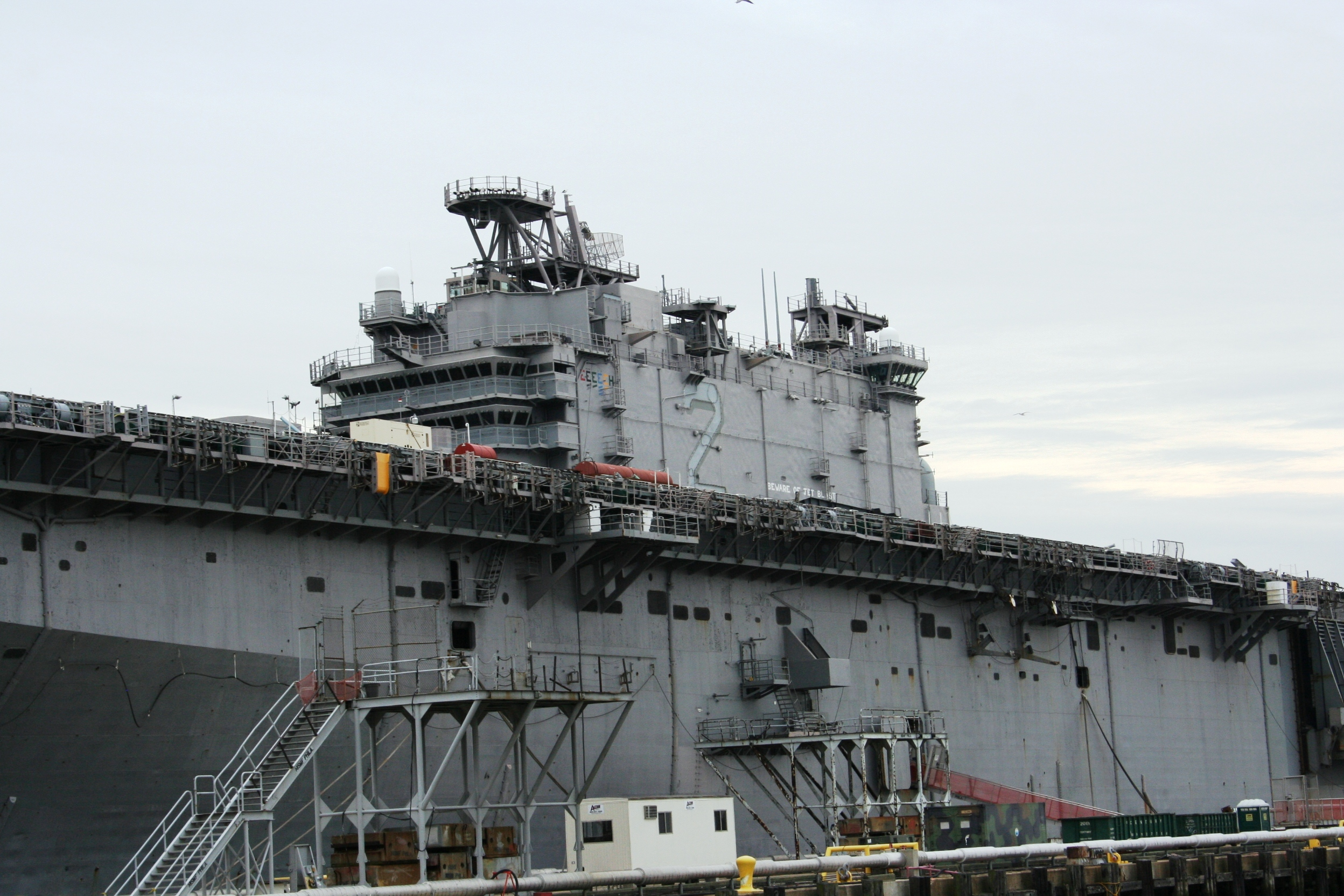 LHA 2 Decommissioned